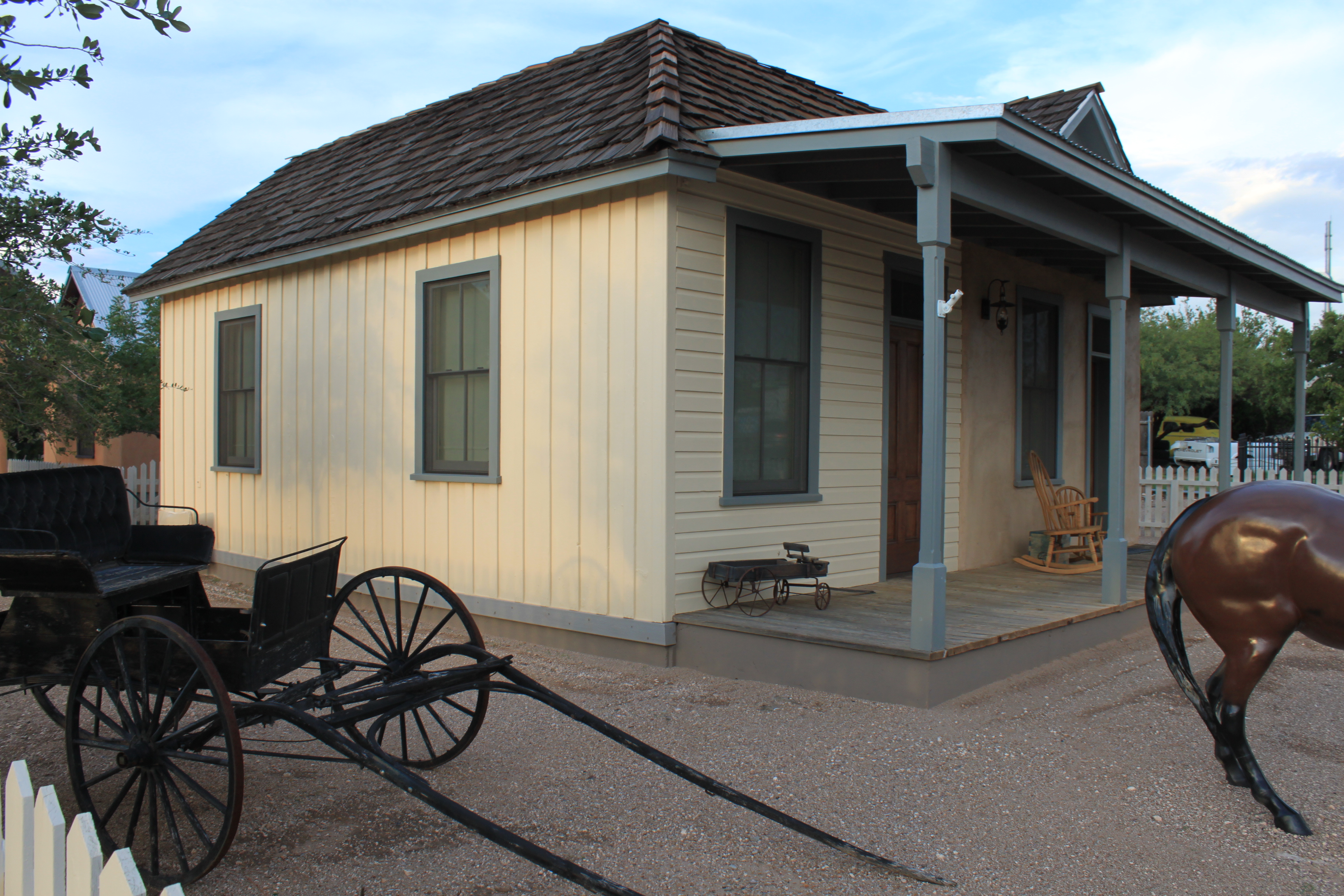 The house where famous old west lawman Wyatt Earp resided in Tombstone, AZ.